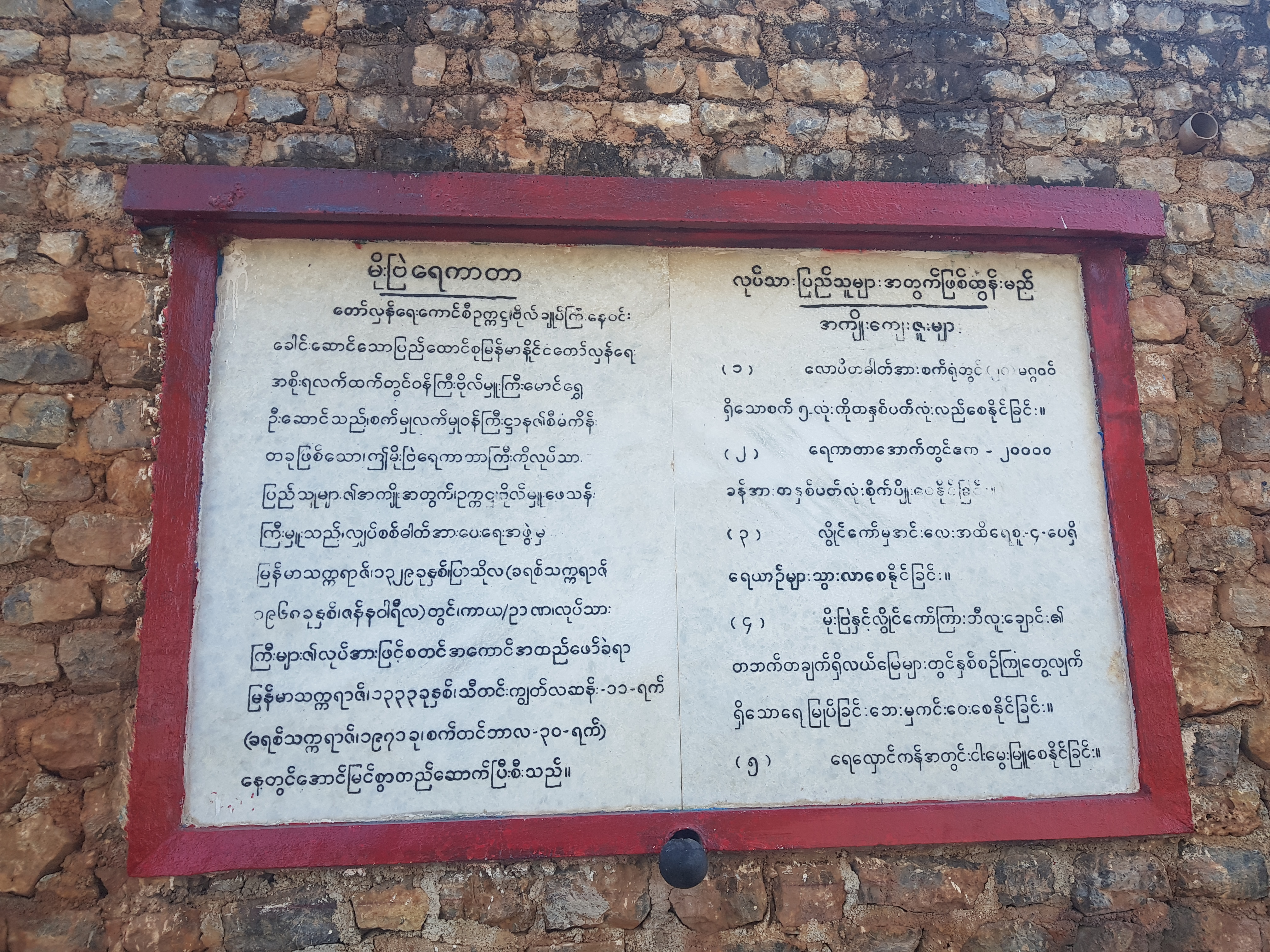 The Archive of Moe Bye Dam in Burmese Language.